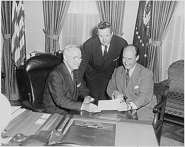 President Harry Truman (left), Democratic presidential candidate Adlai Stevenson (right), and Democratic vice presidential candidate John Sparkman (standing) meeting in the Oval Office.